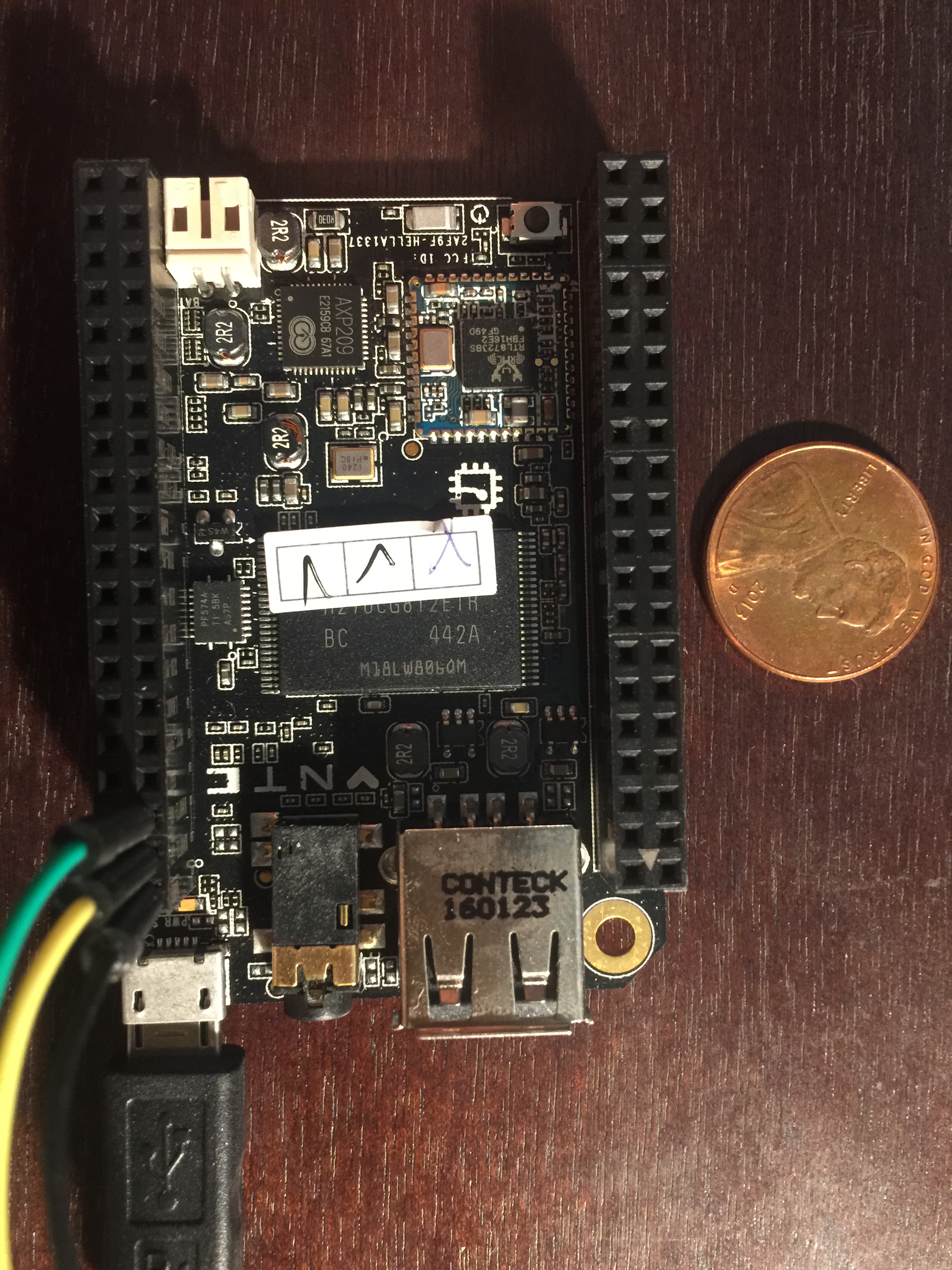 NextThingCo's C.H.I.P Linux singleboard computer